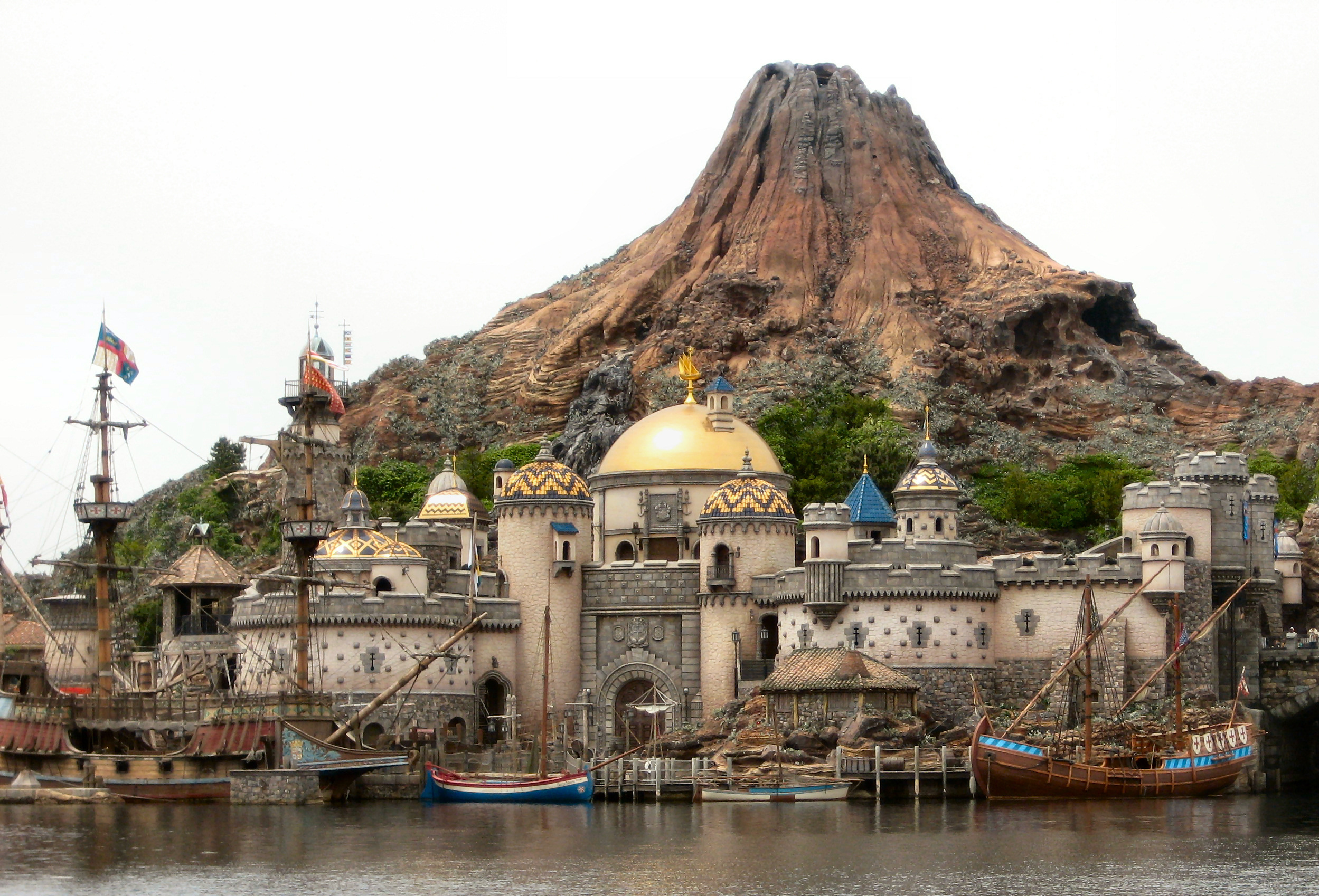 Disney Sea, Urayasu.